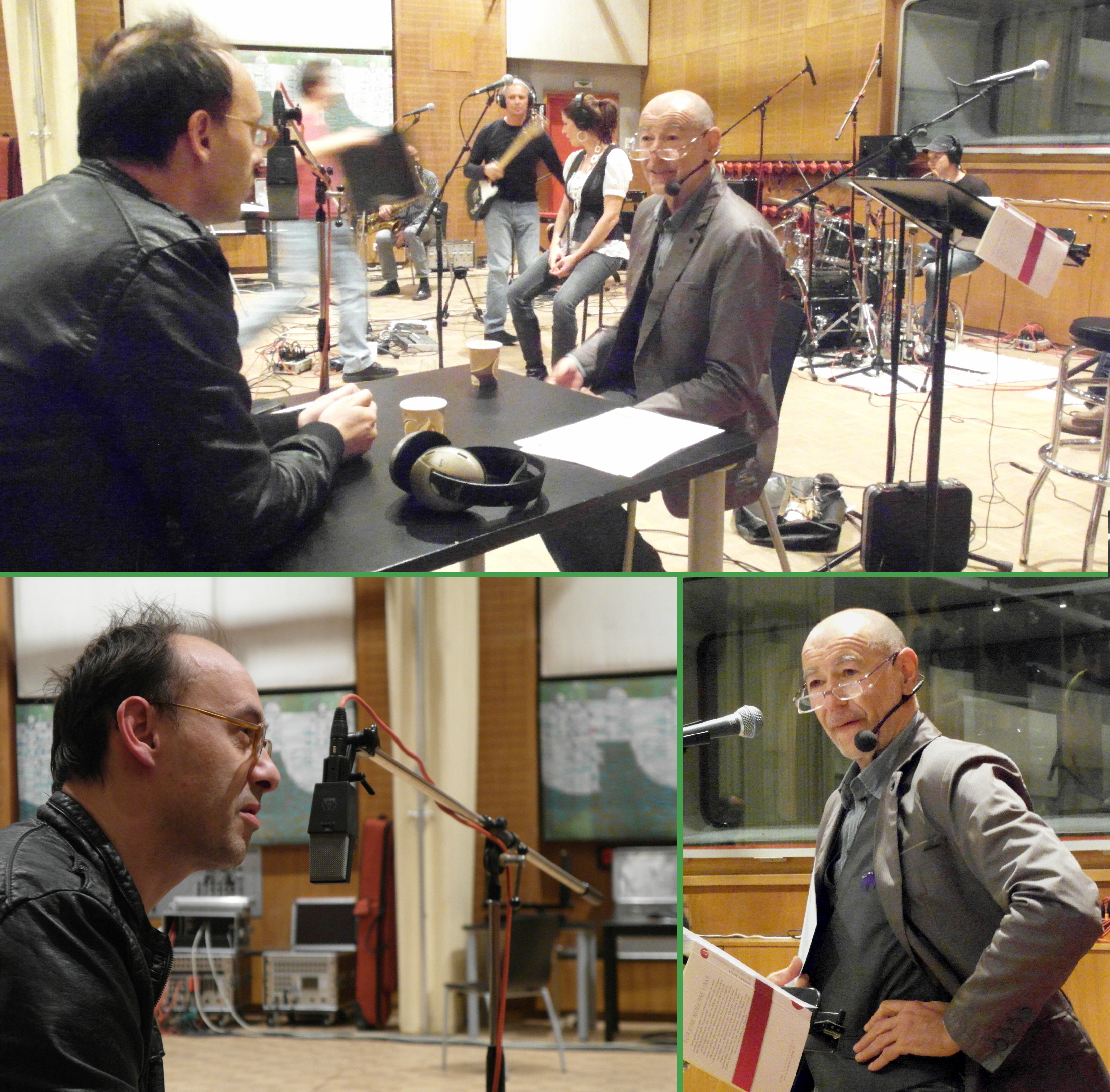 Vienna 2010-11-21 'Grün2g' on 'Trost+Rat' - Robert Misik (left) 'on air' series in talk with Willi Resetarit